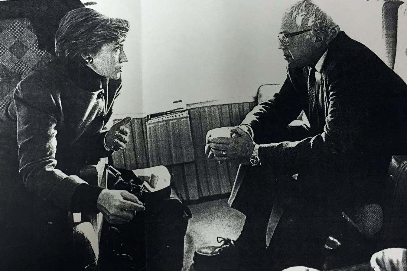 Hillary Clinton and Bernie Sanders 1993